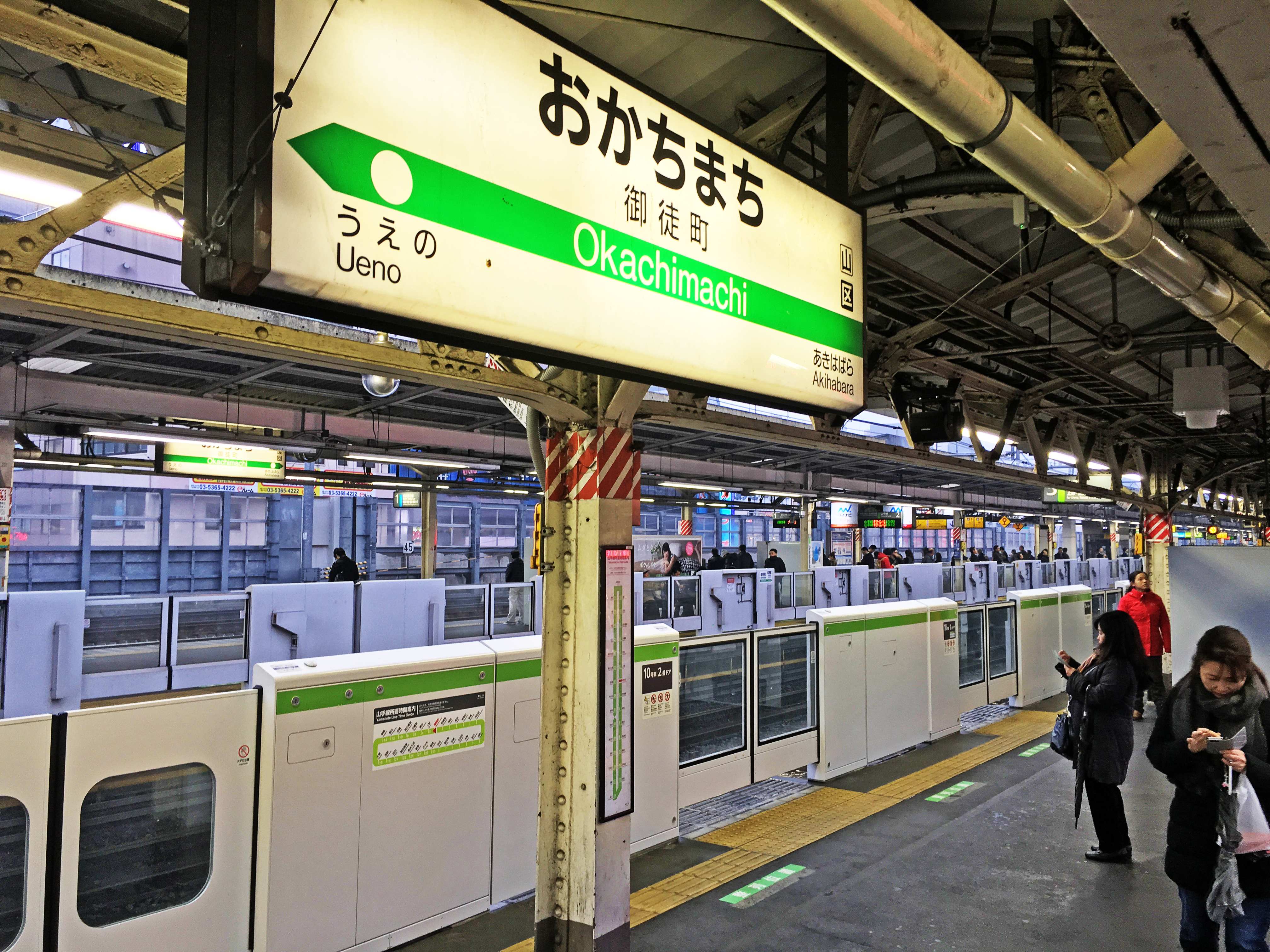 Taken from a platform of outbound lines at Okachimachi Station